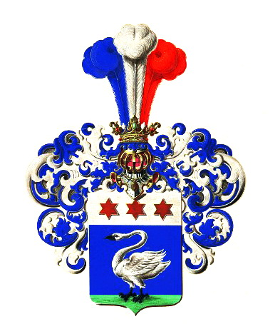 Coat of Arms of Heinrich von Dieckhoff family